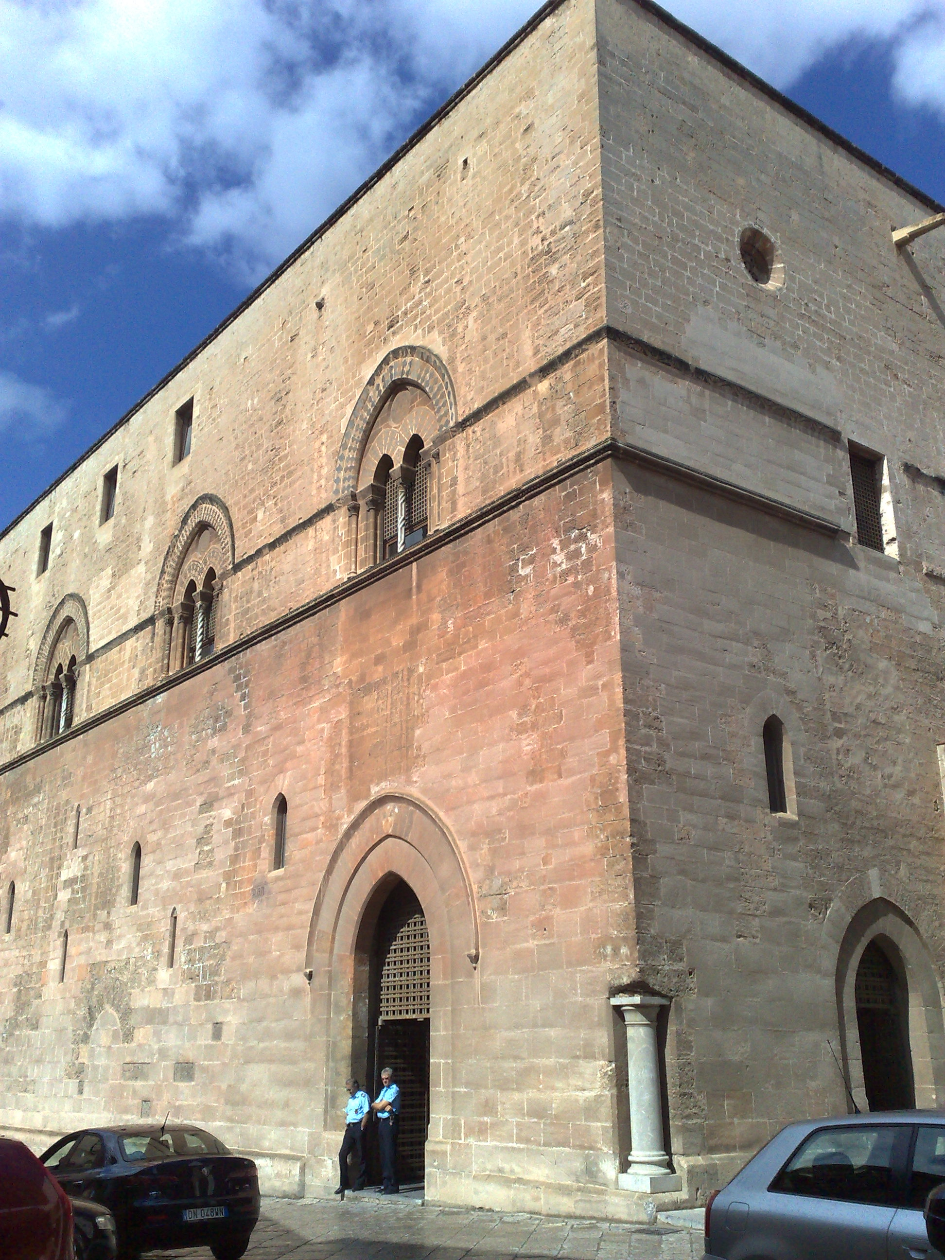 University of Palermo Palazzo Steri Chiaromonte Università degli studi di Palermo: Palazzo Steri Chiaromonte